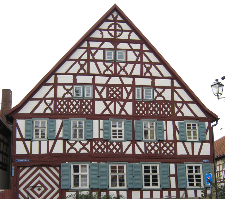 house with wood- construction in the city of Königsberg i. Bay., Germany